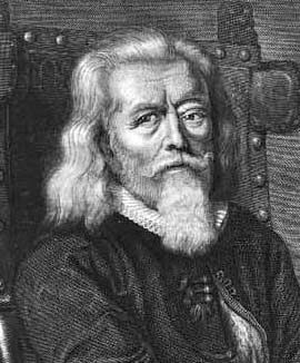 Portrat of Thomas Finke (1561-1656), danish mathematician and physicist